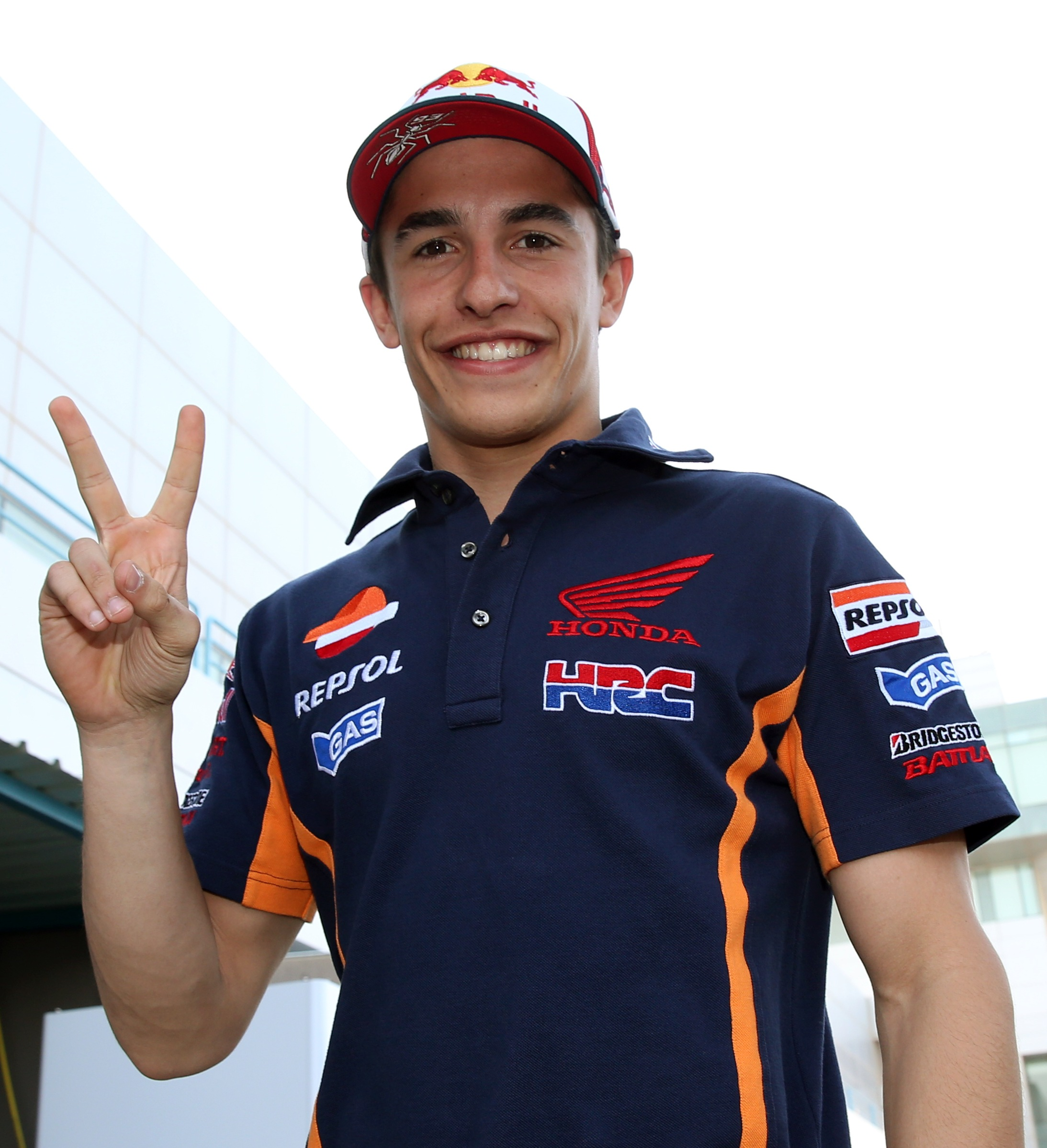 Reigning Spanish MotoGP world champion Marc Marquez during an interactive session in Doha.